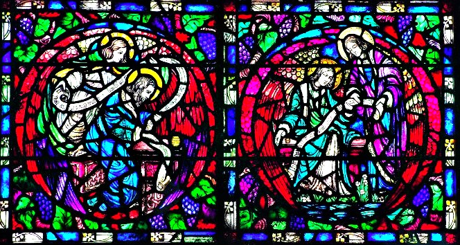 Margaret Redmond, Trinity Church stained glass window, 1927